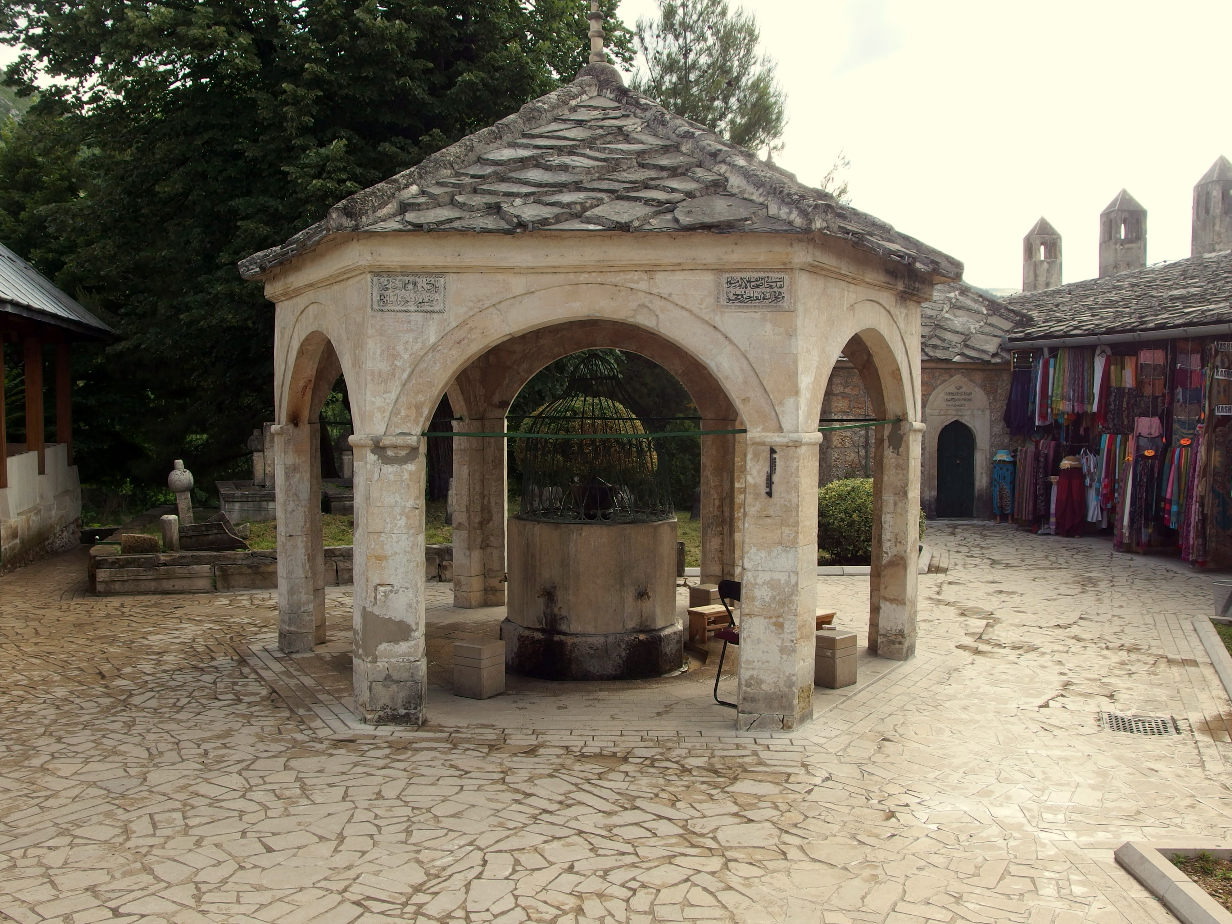 2013-06-06 in Mostar.